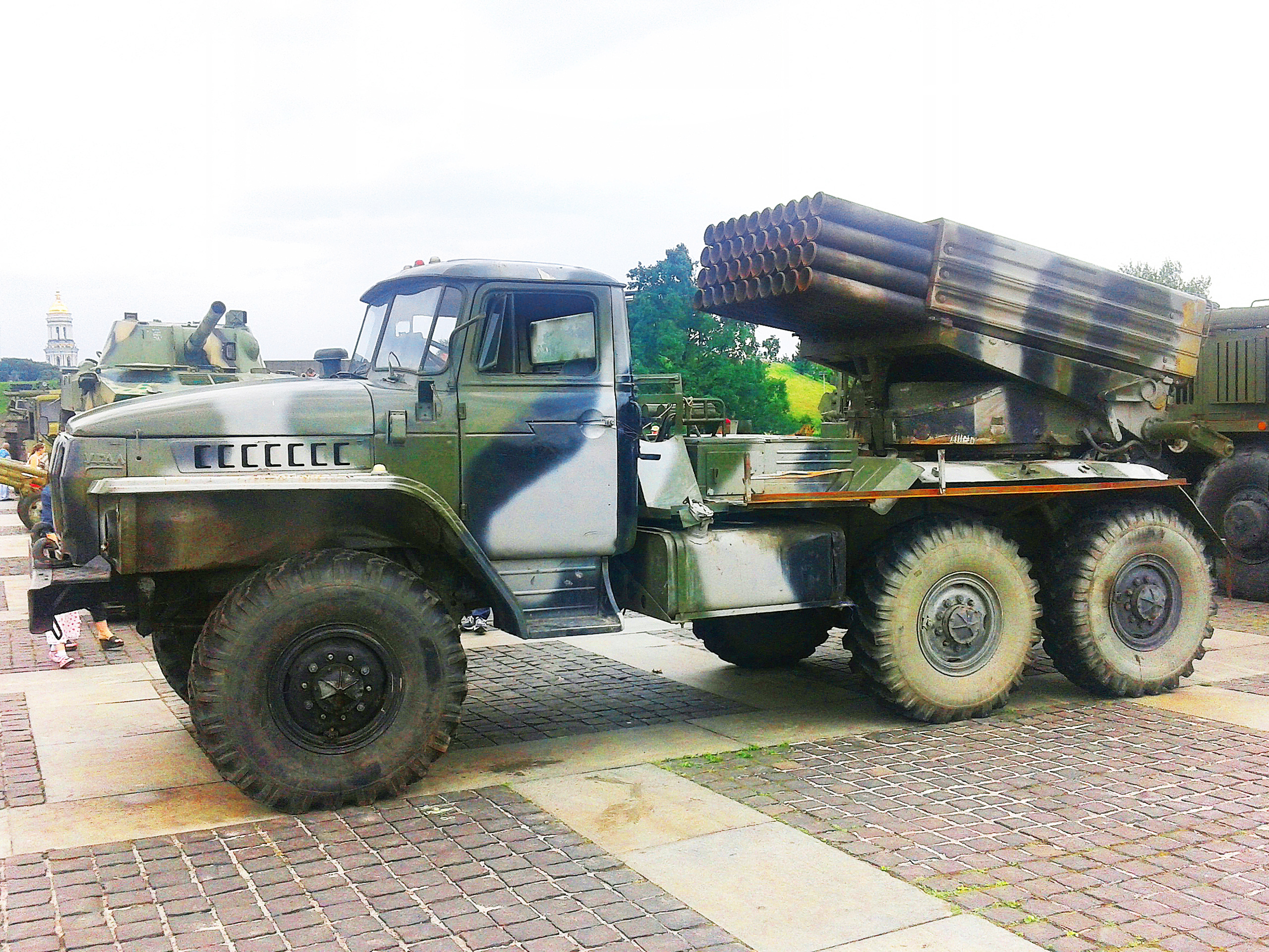 A captured BM-21 Grad seized during civil war in Donbass (Ukraine). Museum of the Great Patriotic War, Kiev, Ukraine. Ukrainian servicemen seized this MRLS near the town of Dobropillia, Donetsk region, on June 13, 2014. The vehicle contained parts of the Russian-made military ammunition. These included ballistic charts stamped with a special sign of the military base #27777. There was also a trace of the tactical sign shaped as rhombus in a square. After a careful research it was found that the MRLS belonged to the 18th motorized infantry brigade attached to the 58th Southern District of the Armed Forces of the Russian Federation based in Chechen Republic.